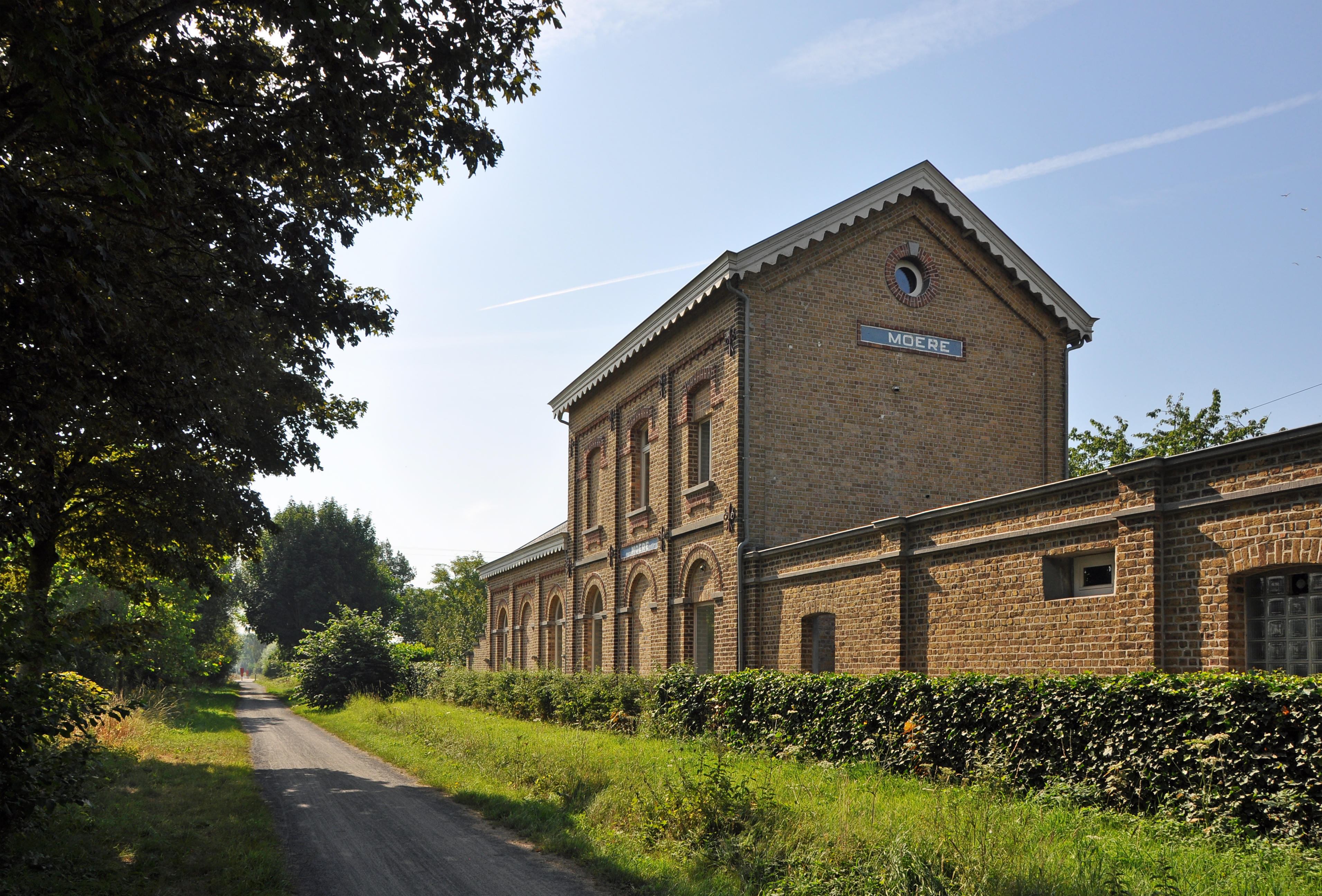 Gistel (Belgium): the former train station of Moere